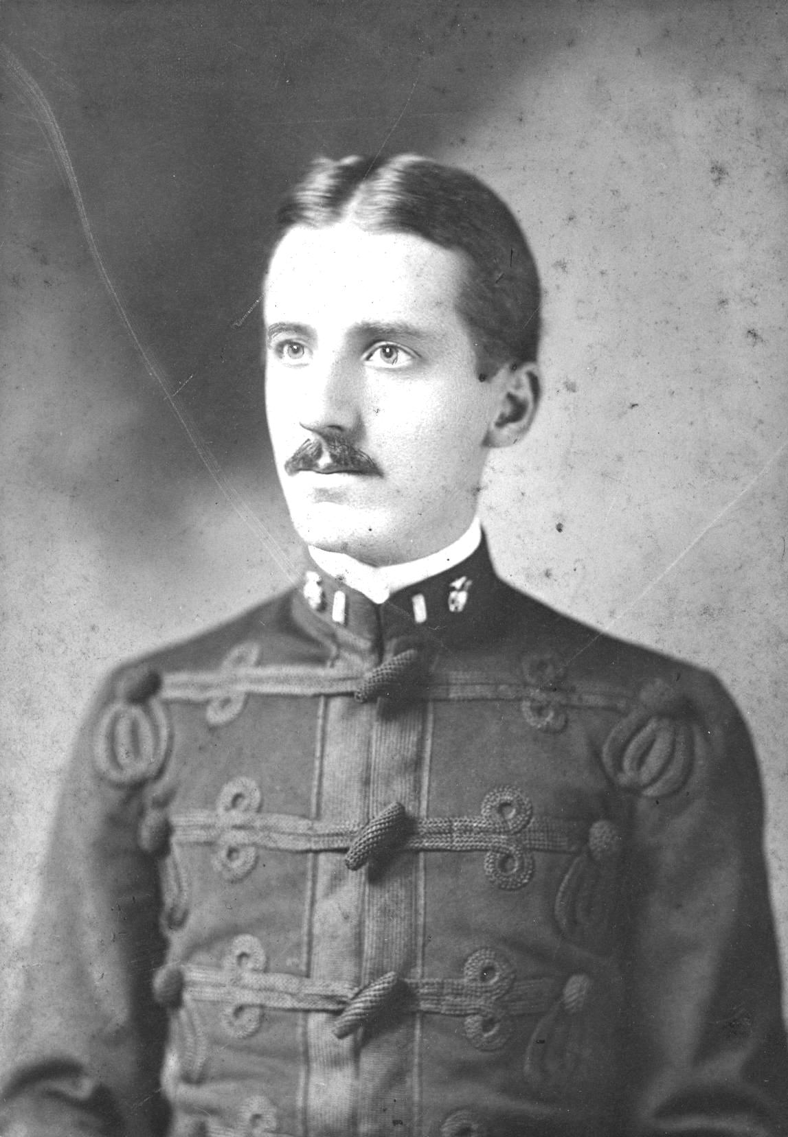 Smedley Butler, circa 1898. From the Smedley Butler Collection (COLL/3124), Marine Corps Archives & Special Collections.